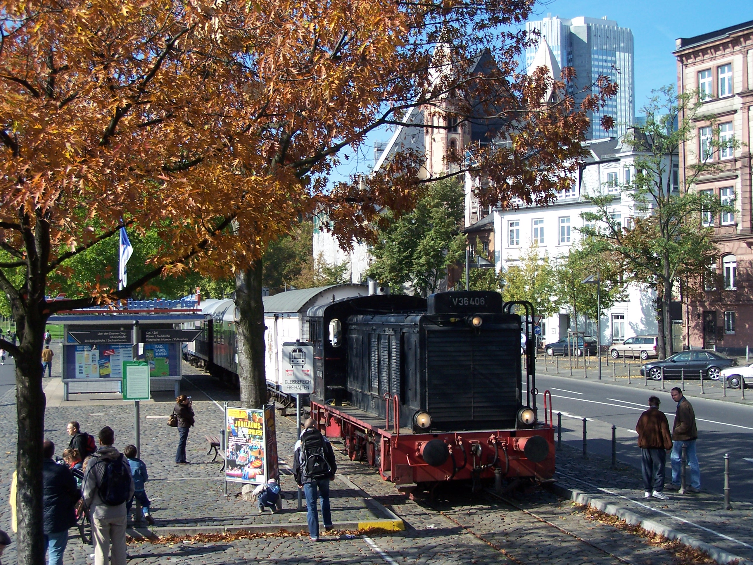 V36 406 owned by the Historical Railway Frankfurt (HEF) on the Frankfurt City Link Line near the Eiserner Steg in Frankfurt am Main